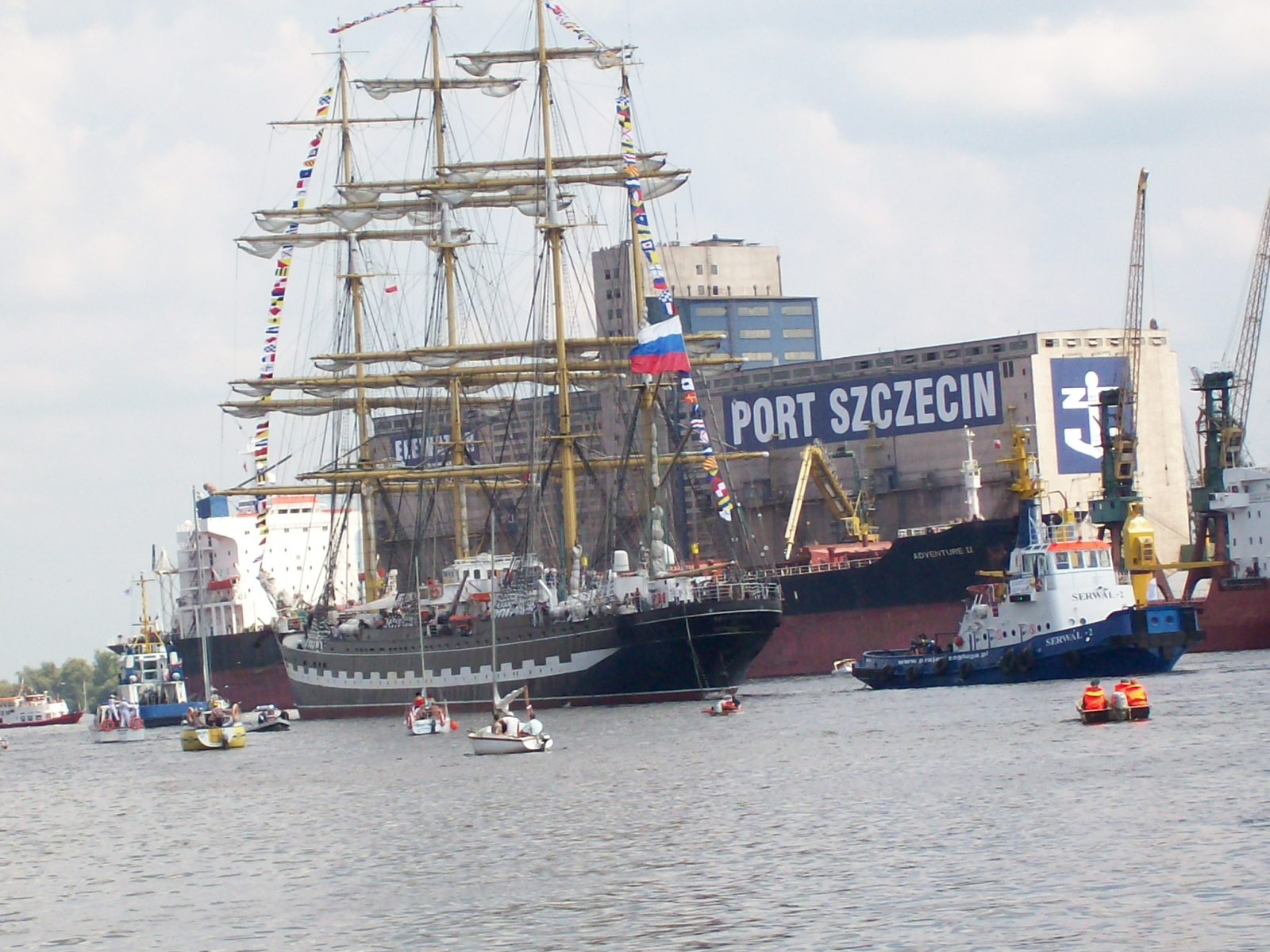 «Крузенштерн» (Kruzenshtern) at Tall Ships' Races 2007